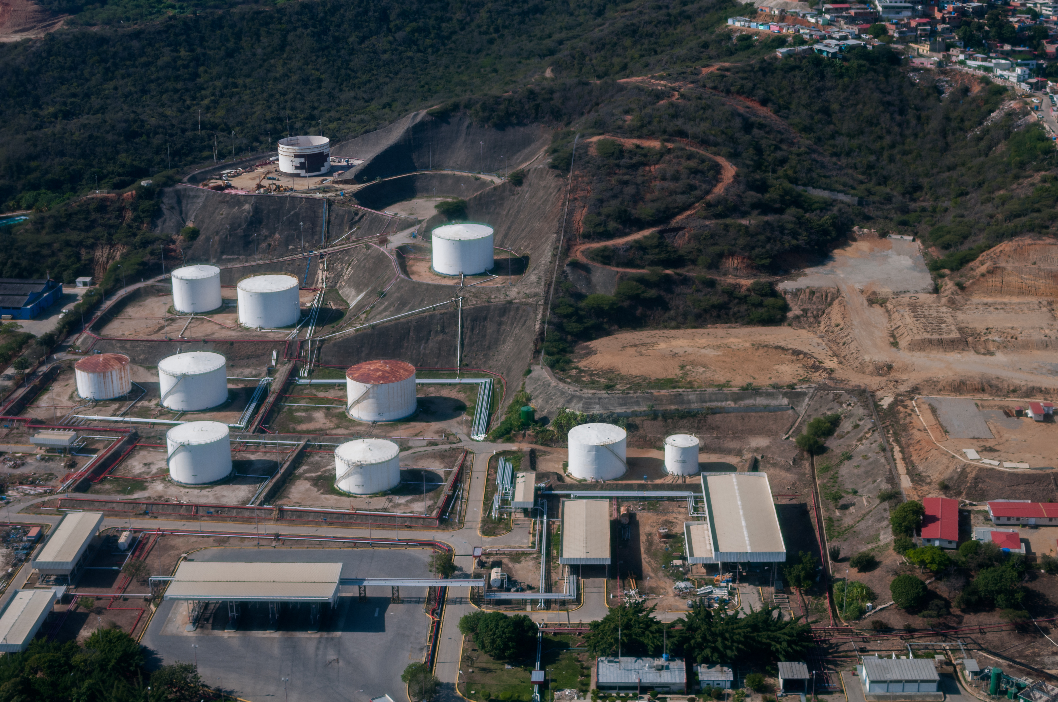 Maiquetia PDVSA